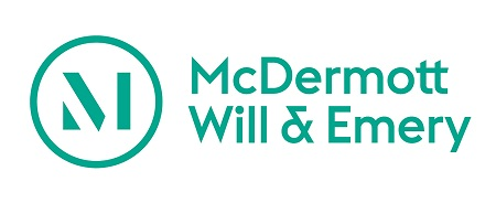 Logo of the US law firm McDermott Will & Emery as of January 2019